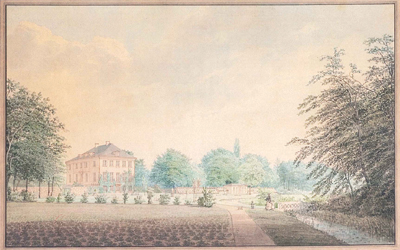 Aldershvile in Galdsaxe Municipality, Copenhagen, Denmark